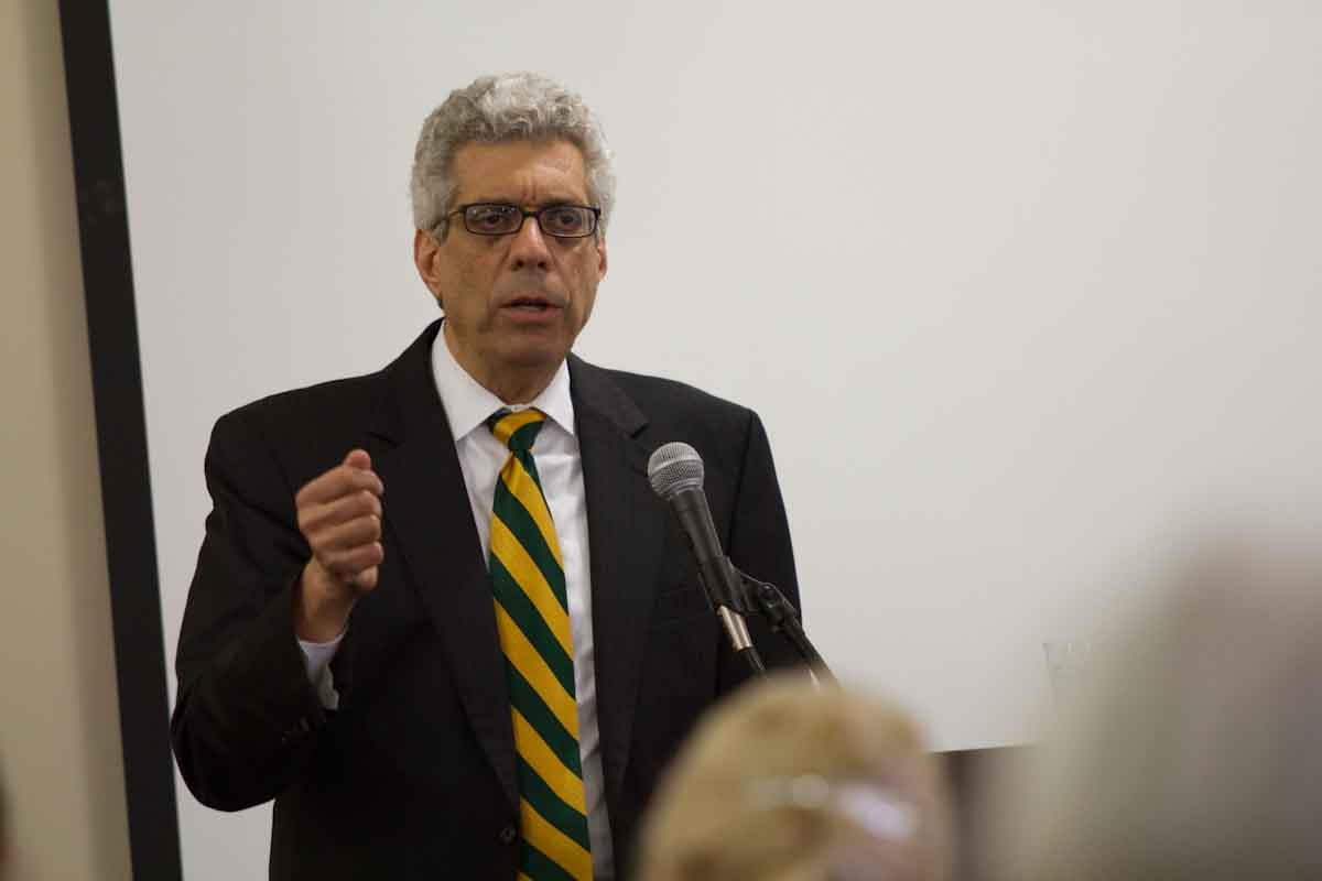 Dr. Fred Pestello at the "A Conversation with the President" session at Le Moyne College